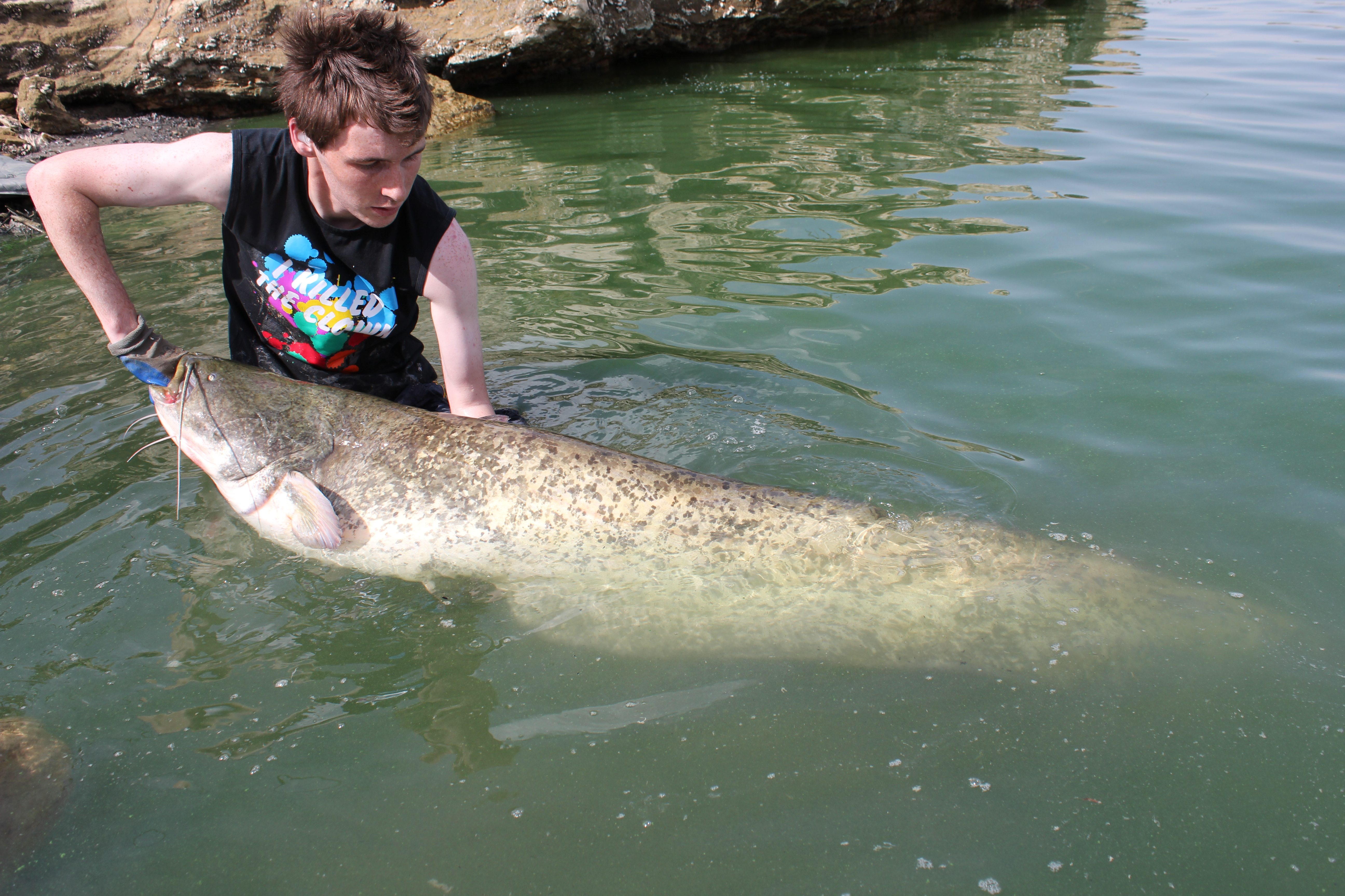 Silurus glanis, Rio Ebro, Spain